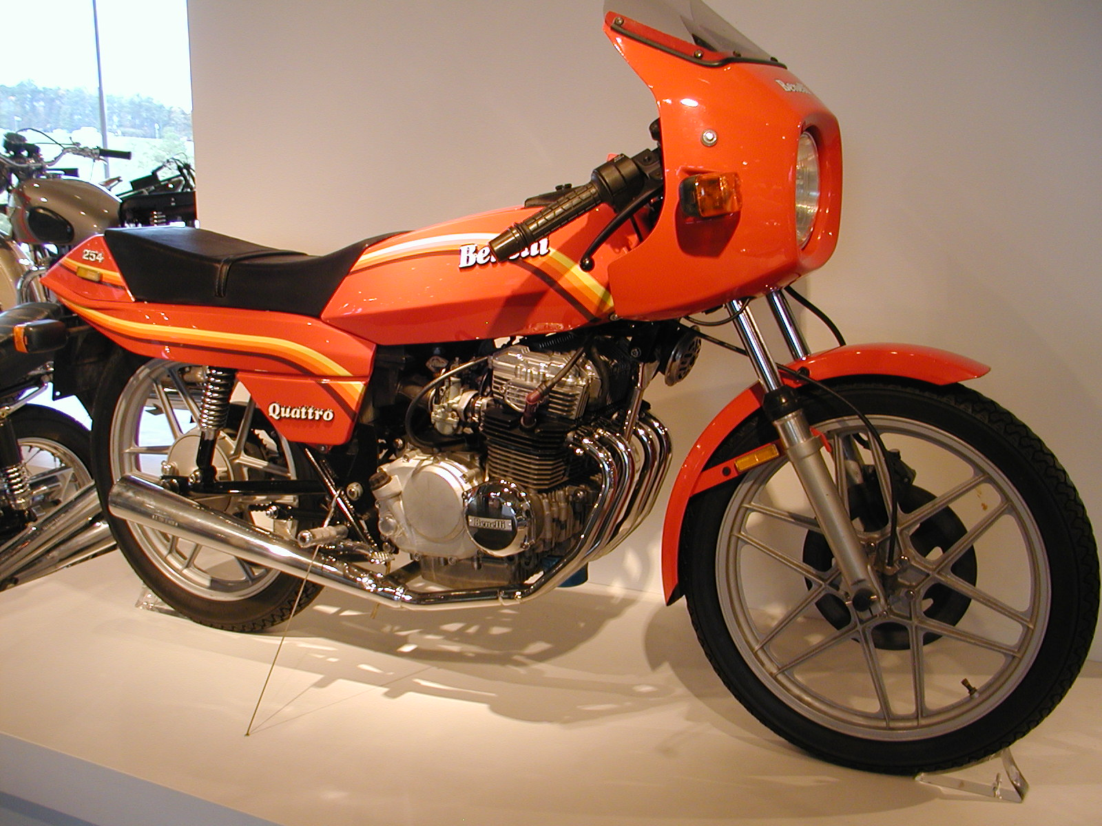 Barber Motorcycle Museum - Oct 22 2006 (212) 1981 Benelli 254 Quatro / More description is here